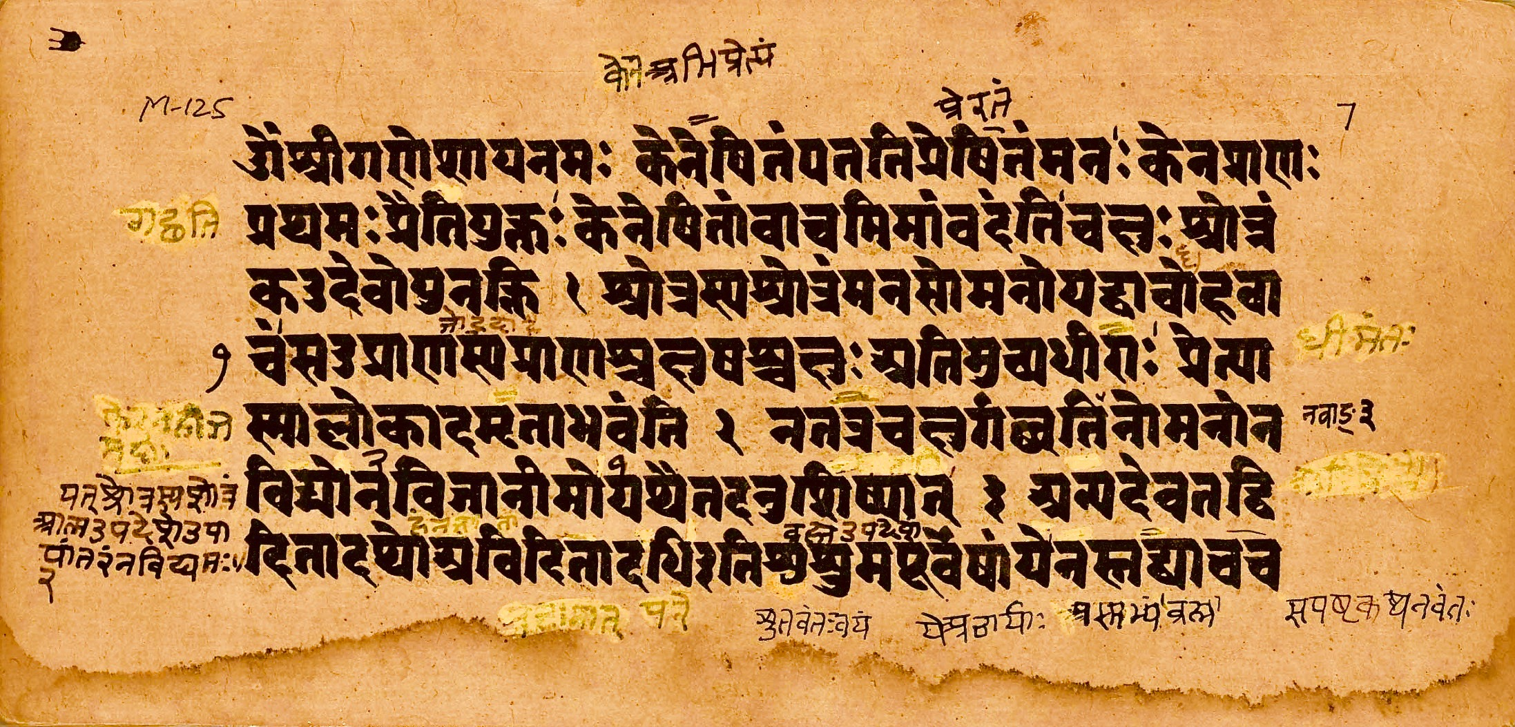 The early Upanishads (Upanisad, Upanisat) are scriptures of Hinduism. Variously dated by scholars to have been composed between 900 BCE to about 200 BCE, these texts are in Sanskrit language and embedded within a layer of the Vedas. They contain a mixture of philosophy and mystical speculations, many set in the form of dialogues or pedagogic style. Their central teachings include the concepts of Atman (soul, self) and Brahman (metaphysical reality). These manuscripts are preserved at the Lalchand Research Library, Ancient Indian Manuscript Collection, DAV College Digital Library Initiative, Chandigarh India, in association with SP Lohia and Indorama Charitable Trust. The texts are over 2000 years old, the re-copying into this particular manuscript is dated to a pre-1867 (exact date unknown) reproduction (Reference 125). The manuscript shows significant decay and damage on the sides and its edges. Language: Sanskrit Script: Devanagari Script style: pre-14th century (Northern / Western) Kena Upanishad, verses 1.1–3, partially 4 (opens with salutations to Ganesha) The thick text is the Upanishad scripture, the small text in the margins and edges are an unknown scholar's notes and comments in the typical Hindu style of a minor bhasya. The photo above is of a 2D artwork of a text that is over 2,000 years old, from a manuscript that was produced decades before 1923. Therefore Wikimedia Commons PD-Art licensing guidelines apply. Any rights I have as a photographer is herewith donated to wikimedia commons under CC 4.0 license. केनोपनिषद्